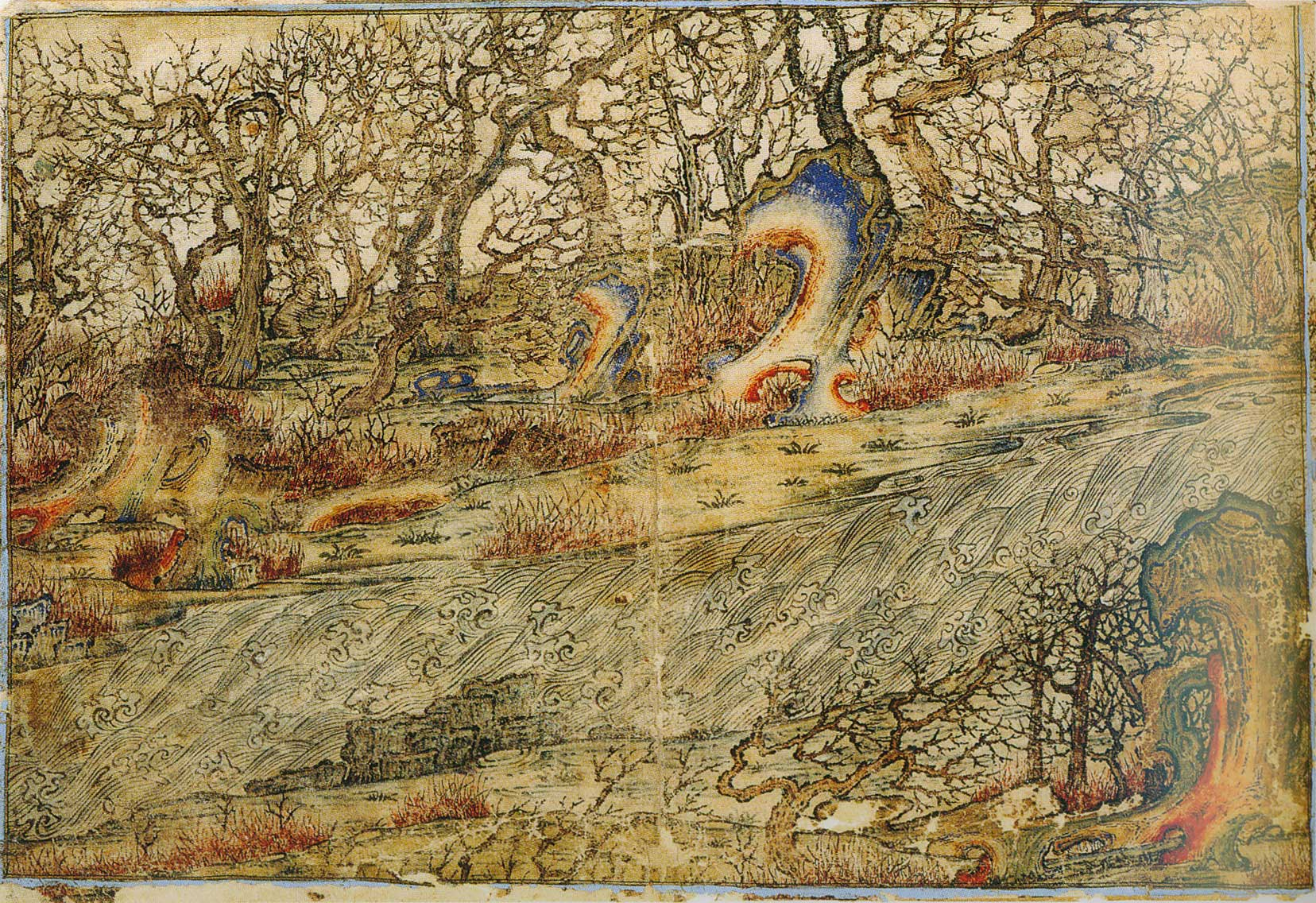 River scenery. Tabriz (?), 1st quarter of 14th century. Water colours on paper. Original size: 19.2 cm x 28.1 cm. Staatsbibliothek Berlin, Orientabteilung, Diez A fol. 71, p. 10.